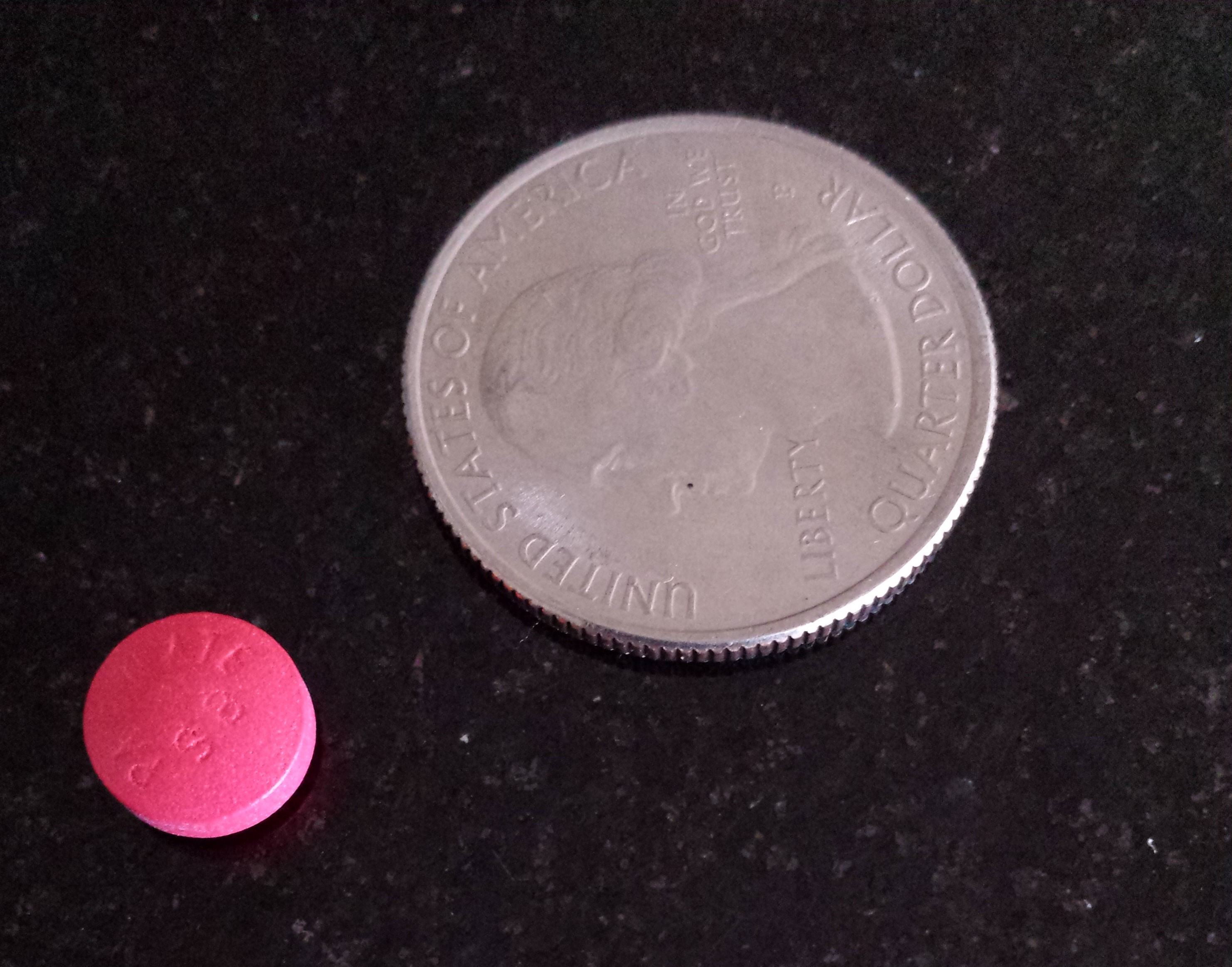 1 10mg Tranylcypromine tablet next to a US Quarter Dollar